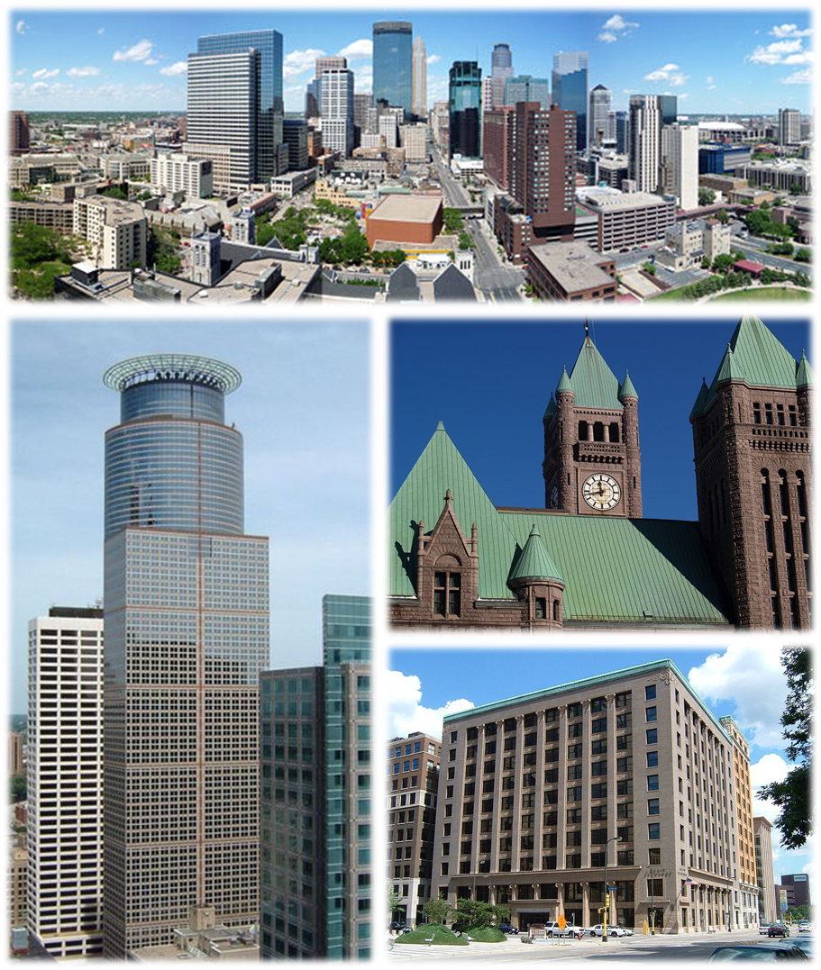 Minneapolis collage.